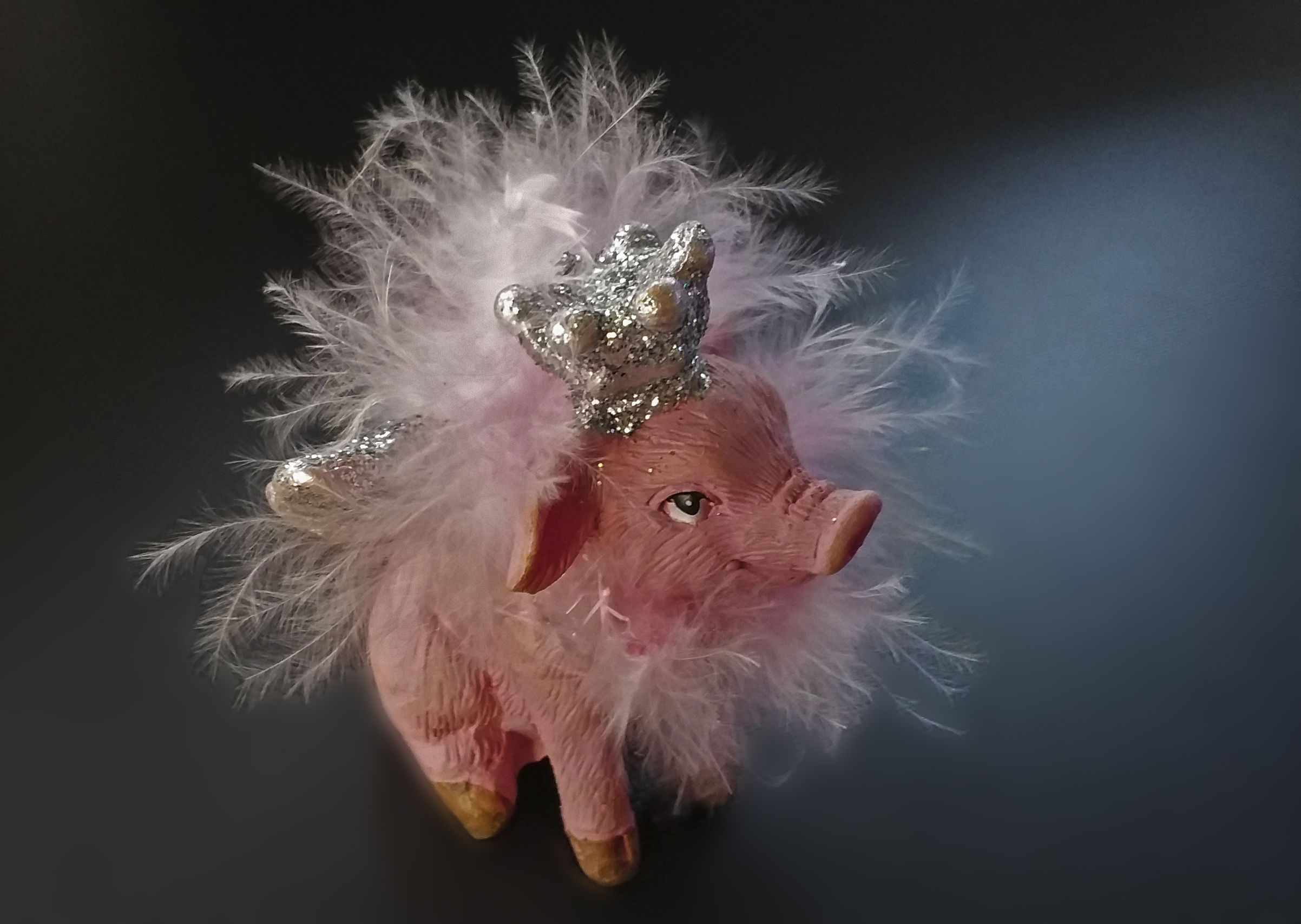 Figure in the shape of a pig.